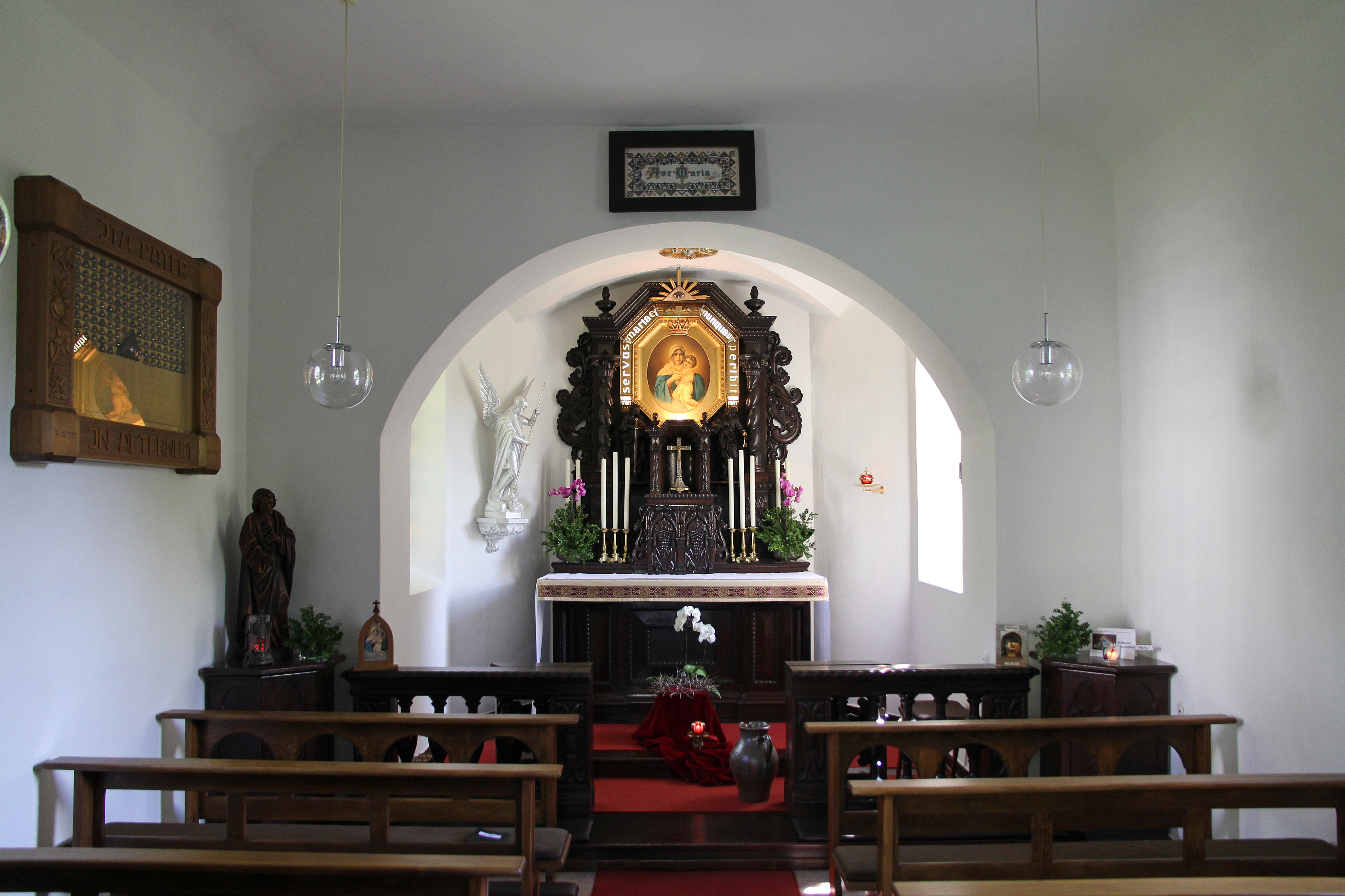 Weidtman Castle in Koblenz